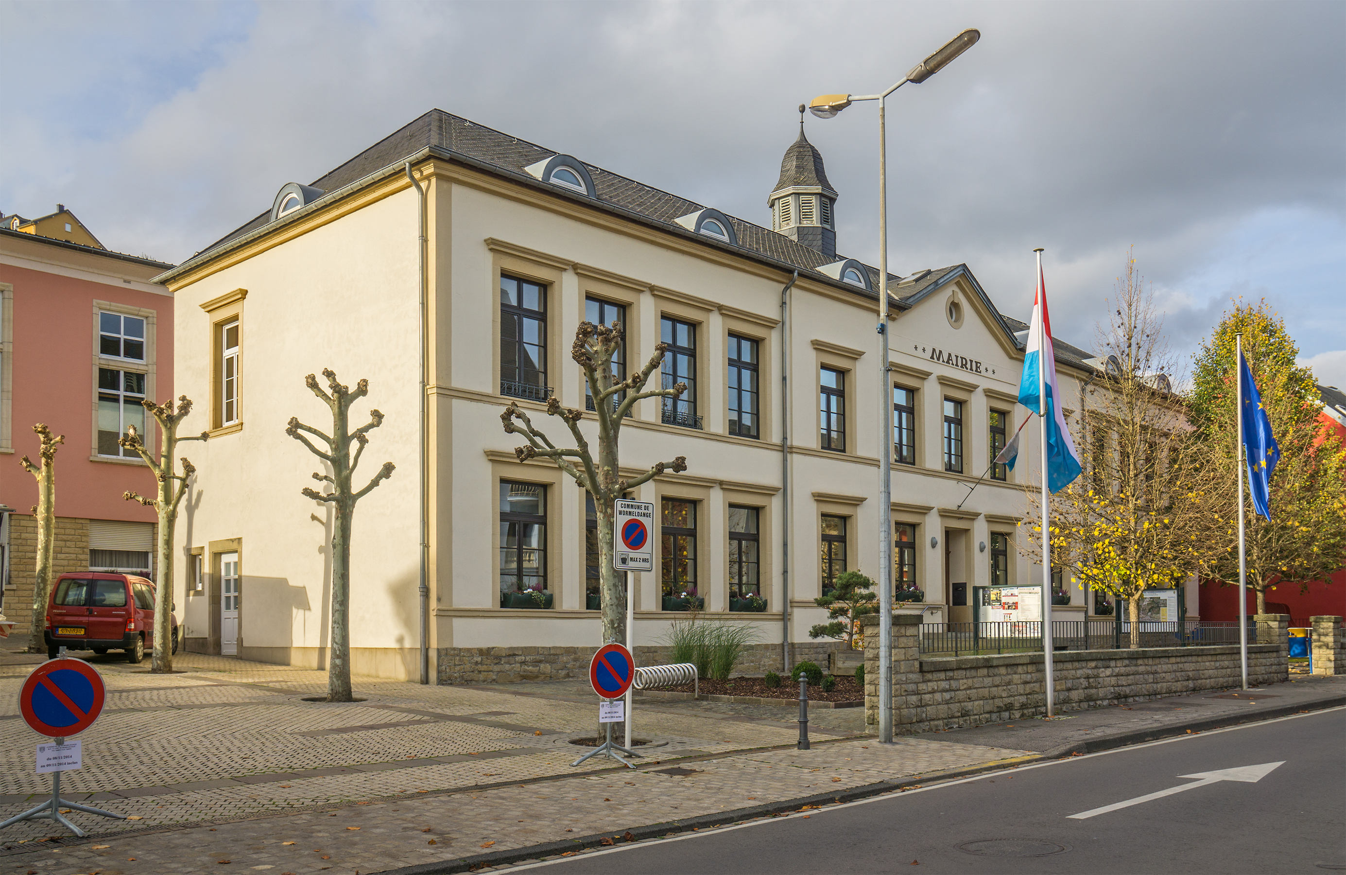 Town hall of Wormeldange